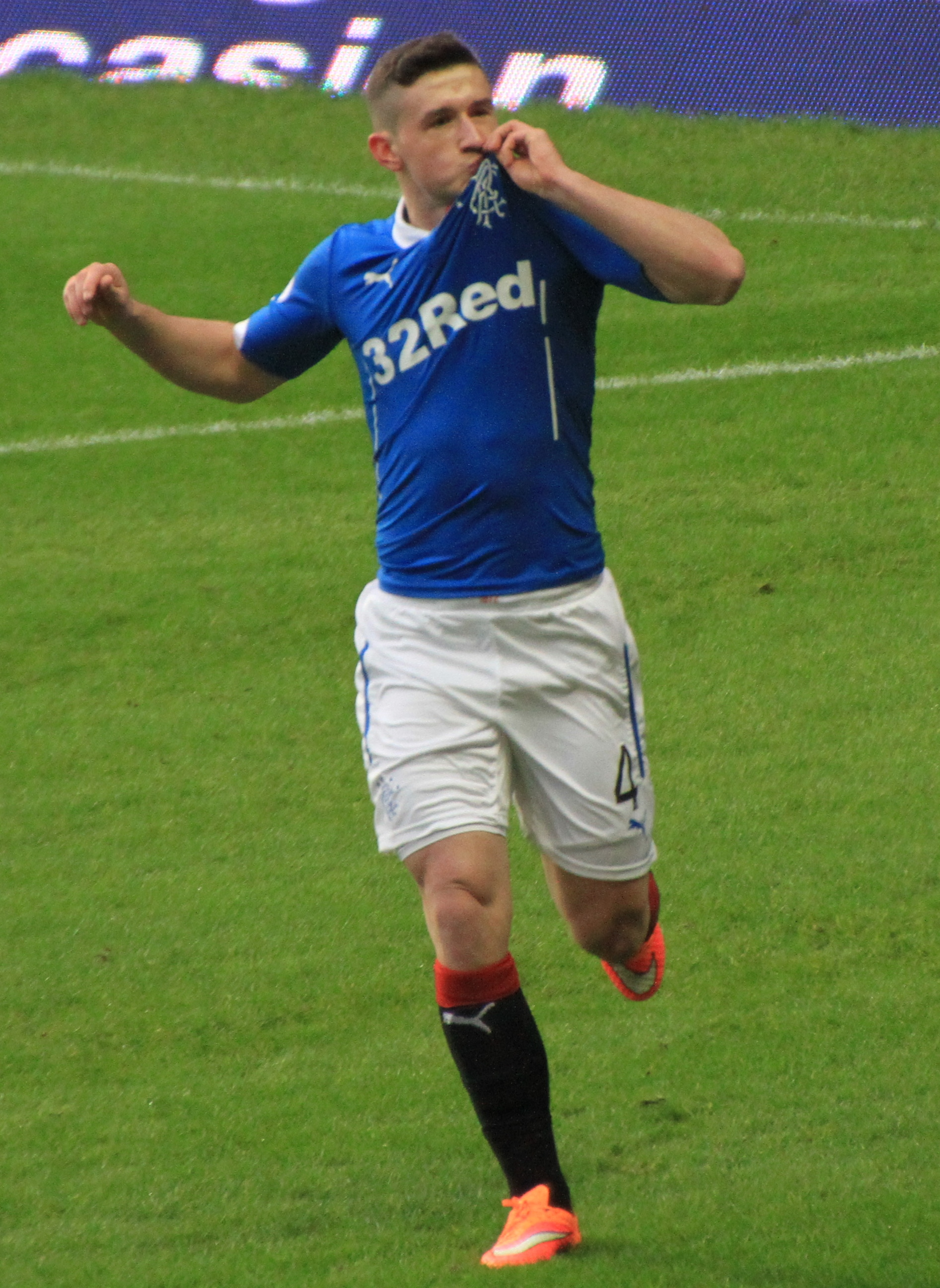 Fraser Aird playing for Rangers in 2014